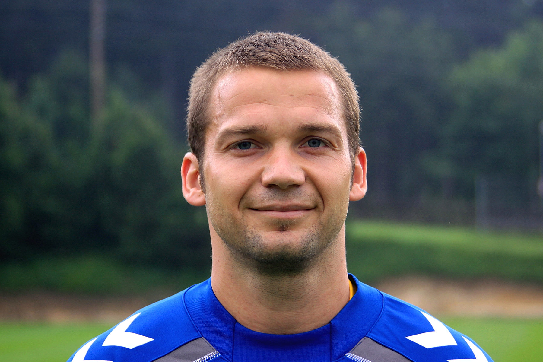 Manuel Rödl - SKN St. Pölten (Austria)